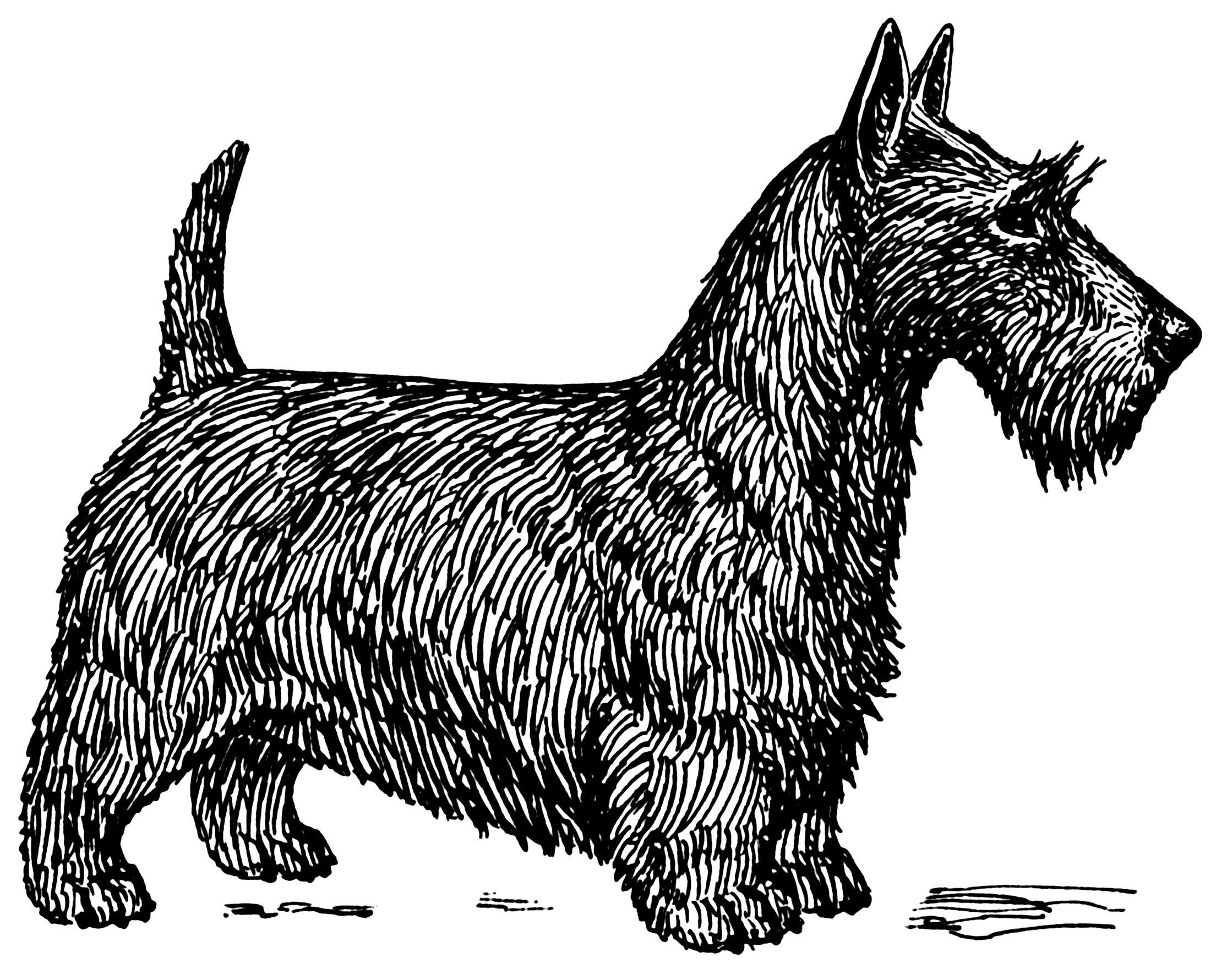 Line art of a Scotch terrier.